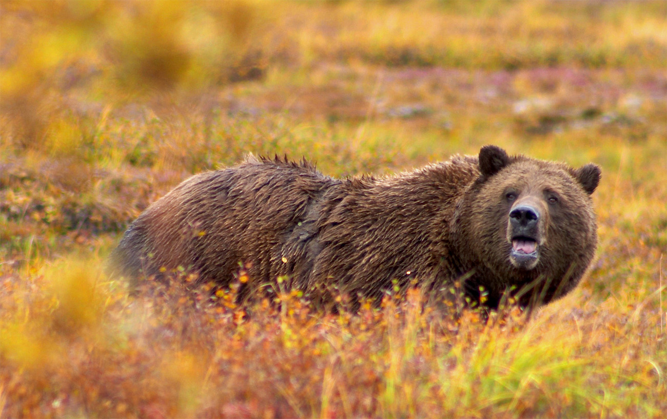 Crop of for Wikipedia:Featured_picture_candidates/Grizzly_Denali. Also rotated 3 degrees CCW, reduced in size slightly and sharpened.